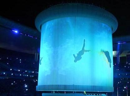 2011 Pan American Games Opening Ceremony This image depicts the "Halo" structure built by Production Resource Group, L.L.C..